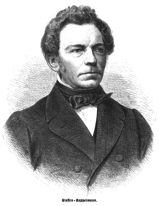 no caption